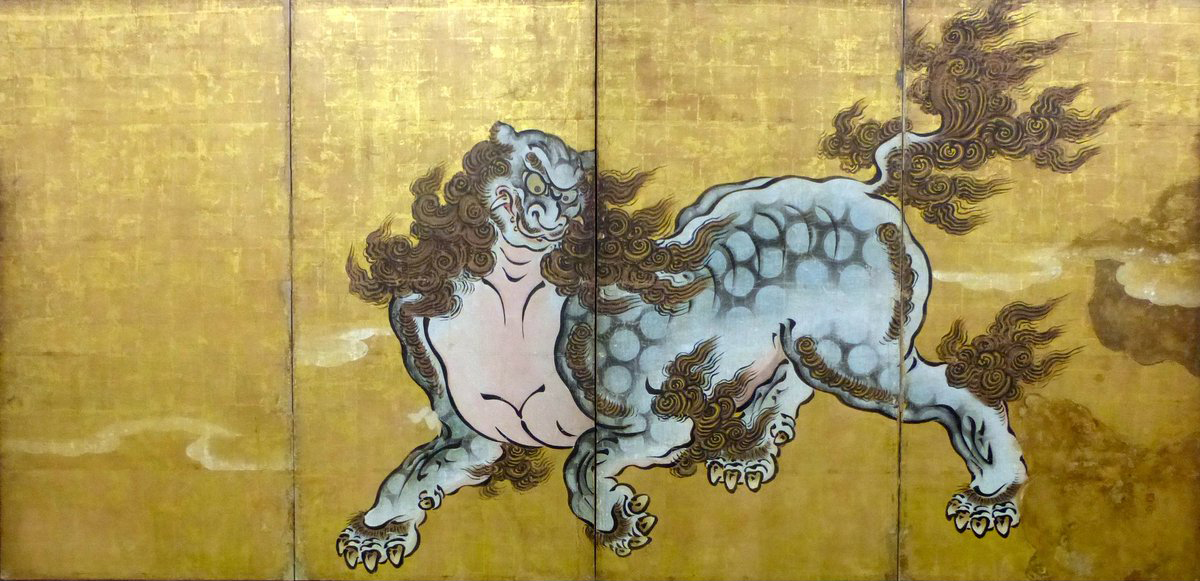 Chinese Lion, Honpoji, Kyoto, Kyoto, Japan (ICP as of 18 March 2019)